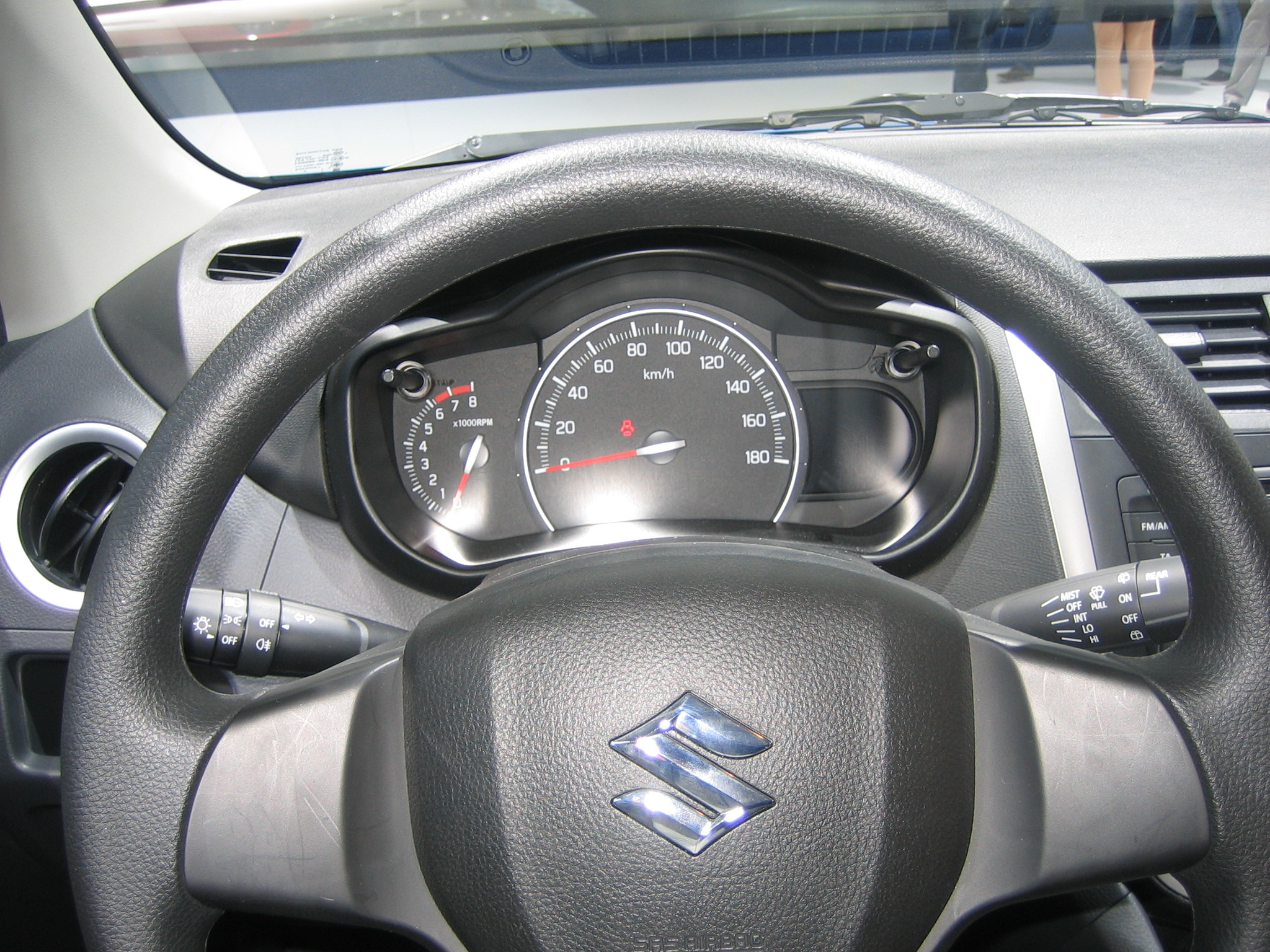 Cockpit of Suzuki Celerio